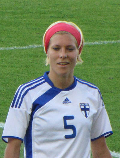 Miia Niemi during Finland - Northern Ireland friendly match.